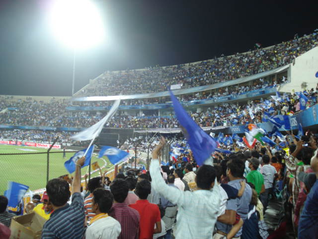 Indian Premier League Deccan Chargers vs Delhi Daredevils in RGIS Hyderabad